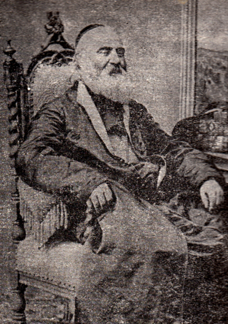 Photograph of Ioan Popoasu (d. 1889), the Romanian Orthodox bishop of Caransebeş, Transylvania, and uncle of the literary critic Titu Maiorescu.